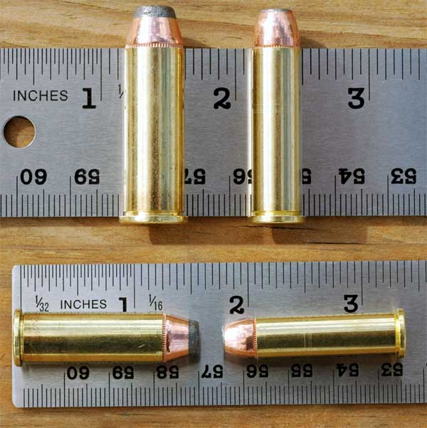 Photo © by Jeff Dean